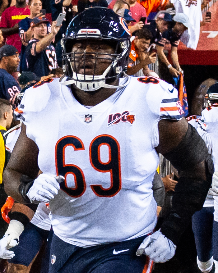 In 2019